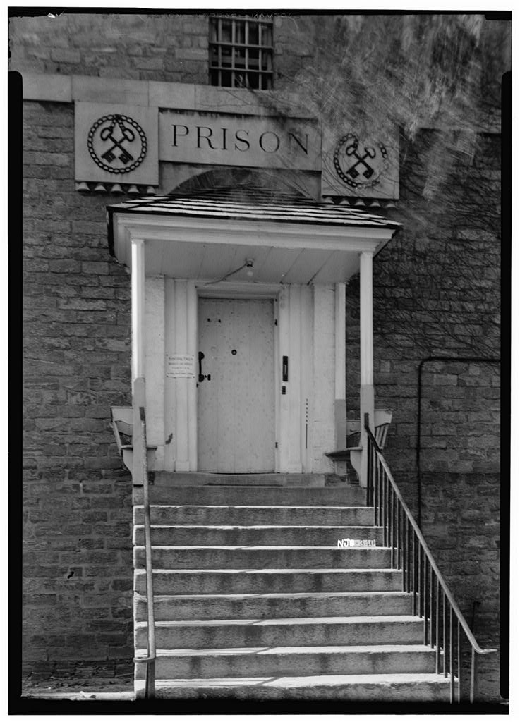 Title: Burlington County Prison, 128 High Street, Mount Holly, Burlington, NJ * Creator(s): Historic American Buildings Survey, creator * Related Names: Mills, Robert * Medium: Measured Drawing(s): 24(18 x 24 in.) Photo(s): 7 (5 x 7 in.) Data Page(s): 12 plus cover page * Reproduction Number: [See Call Number] * Call Number: HABS NJ,3-MOUHO,8- * Repository: Library of Congress, Prints and Photographs Division, Washington, D.C. 20540 USA * Notes: o Survey number HABS NJ-340 o Unprocessed field note material exists for this structure (FN-191). o Building/structure dates: 1810 initial construction o National Register of Historic Places NRIS Number: 86003558 * Subjects: o prisons o prison reform o NEW JERSEY--Burlington--Mount Holly * Collections: o Historic American Buildings Survey/Historic American Engineering Record/Historic American Landscapes Survey * Part of: Historic American Buildings Survey (Library of Congress) * Contents: Photograph caption(s) 1. Historic American Buildings Survey Nathaniel R. Ewan, Photographer March 15, 1936 EXTERIOR - SOUTHEAST ELEVATION 2. Historic American Buildings Survey Nathaniel R. Ewan, Photographer March 3, 1937 EXTERIOR - WEST ELEVATION 3. Historic American Buildings Survey Nathaniel R. Ewan, Photographer March 3, 1937 EXTERIOR - MAIN ENTRANCE 4. Historic American Buildings Survey Nathaniel R. Ewan, Photographer March 3, 1937 EXTERIOR - DETAIL STEPS AND DOOR - WEST ELEVATION 5. Historic American Buildings Survey Nathaniel R. Ewan, Photographer March 3, 1937 INTERIOR - MAIN DOOR WITH ORIGINAL HARDWARE 6. Historic American Buildings Survey Nathaniel R. Ewan, Photographer March 3, 1937 INTERIOR - MURDERER'S CELL - SECOND FLOOR 7. Historic American Buildings Survey, Taken from drawing sheet * Bookmark This Record